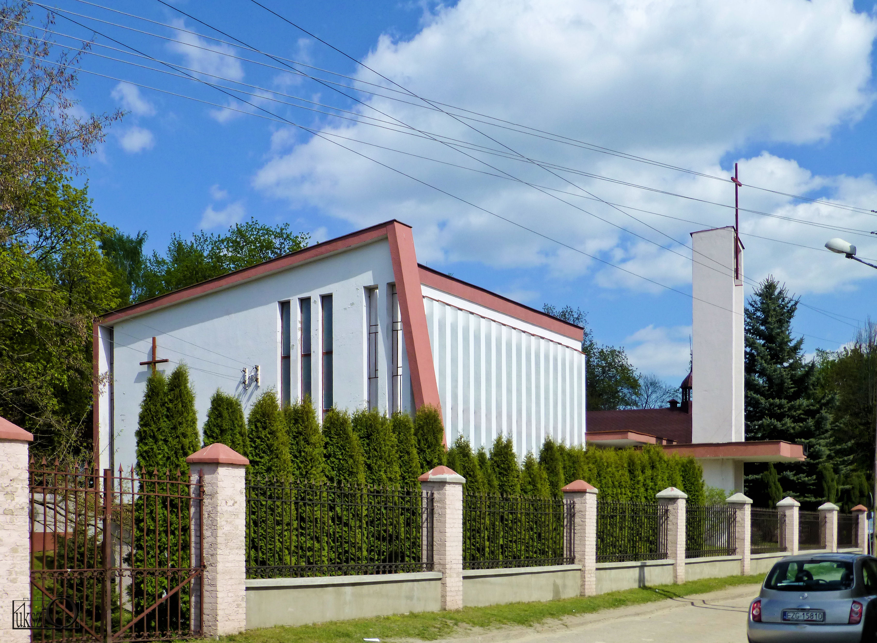 Kościół Ewangelicko-Augsburski Opatrzności Bożej w Zgierzu, ul. Spacerowa 2